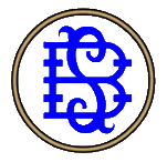 Real Betis Balompie first crest